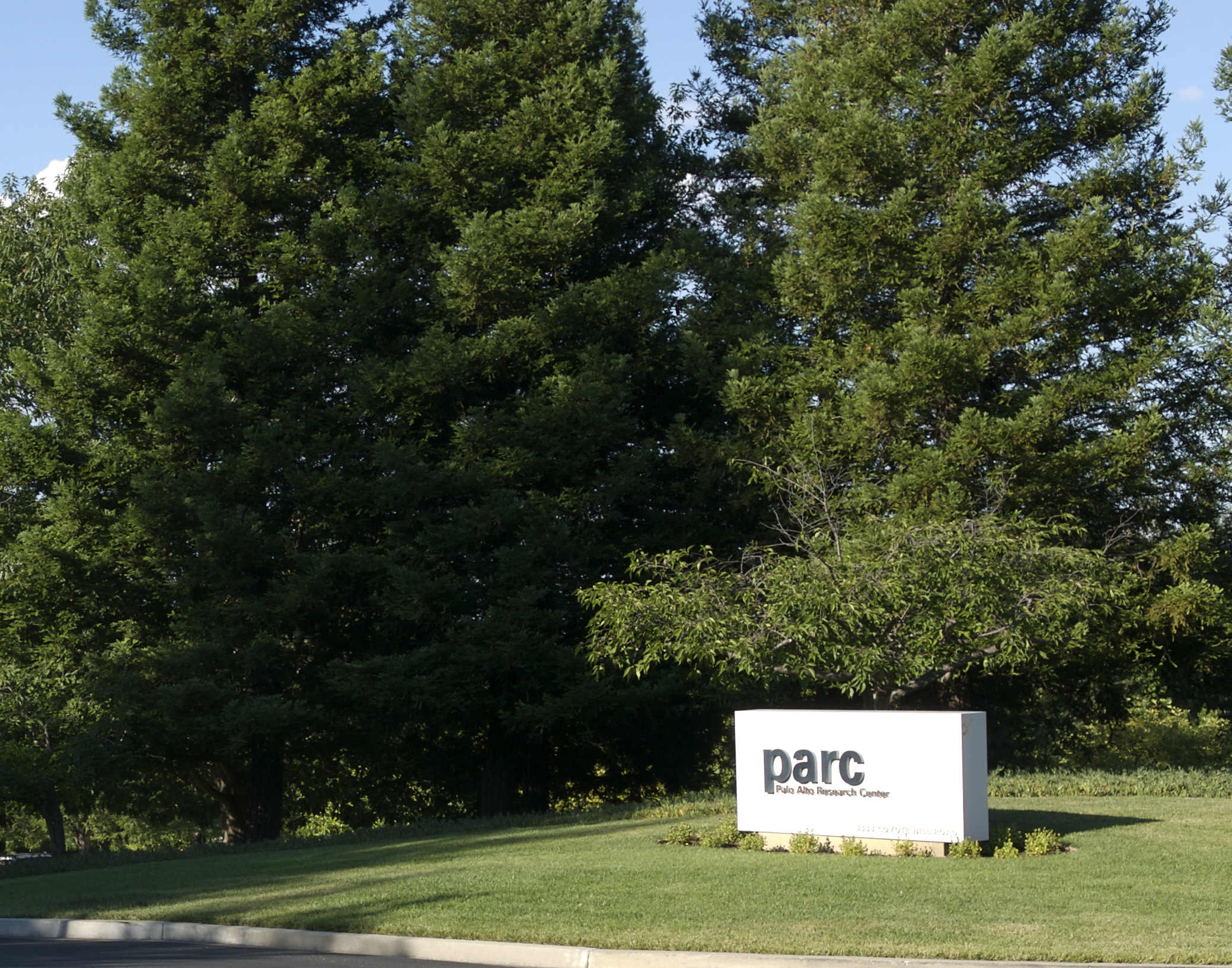 Palo Alto, California. Old Xerox PARC site.